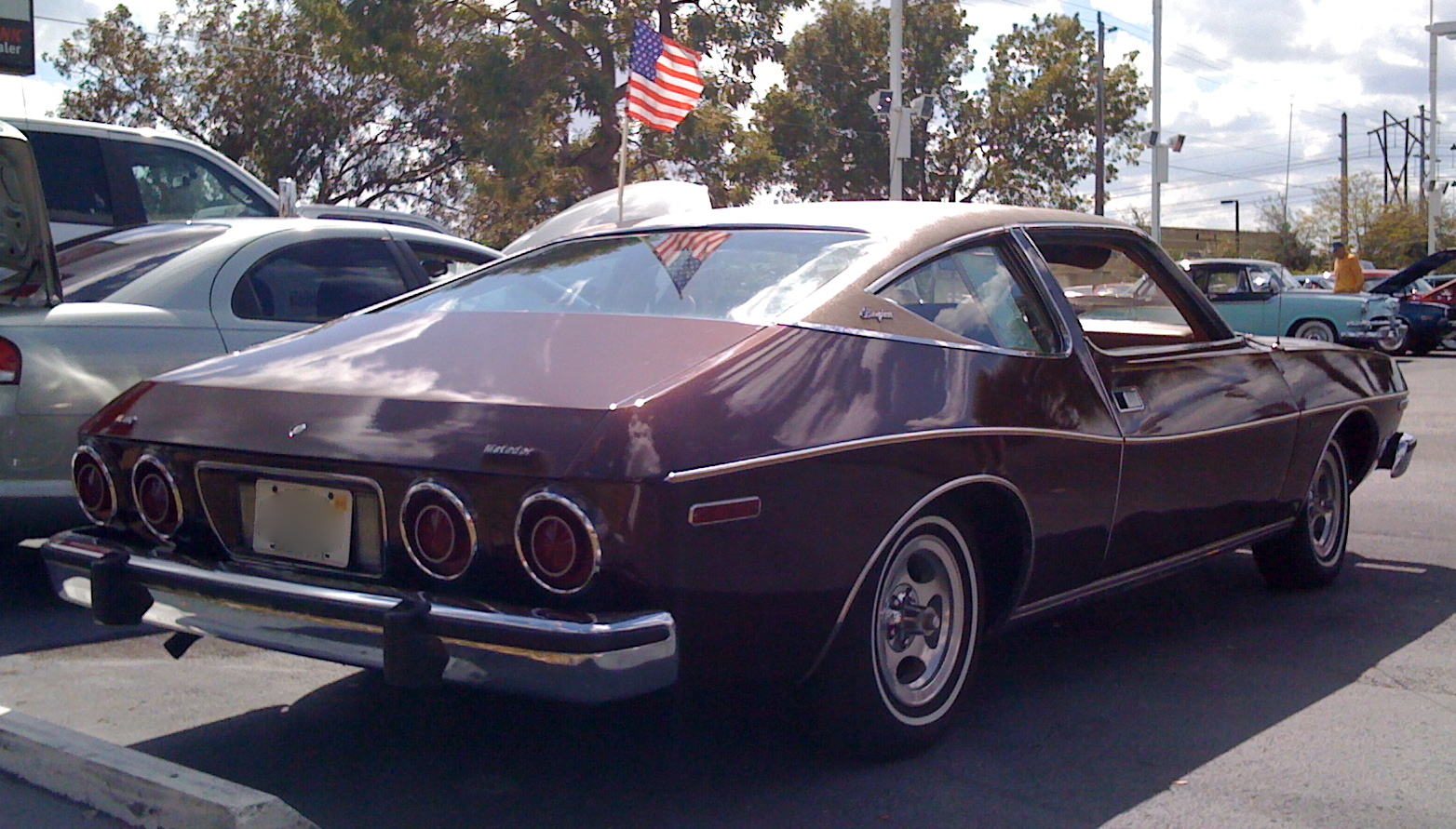 1976 AMC Matador Coupe - Brougham edition finished in Dark Cocoa Metallic (paint code: H4) with optional vinyl roof cover. Rear right view.